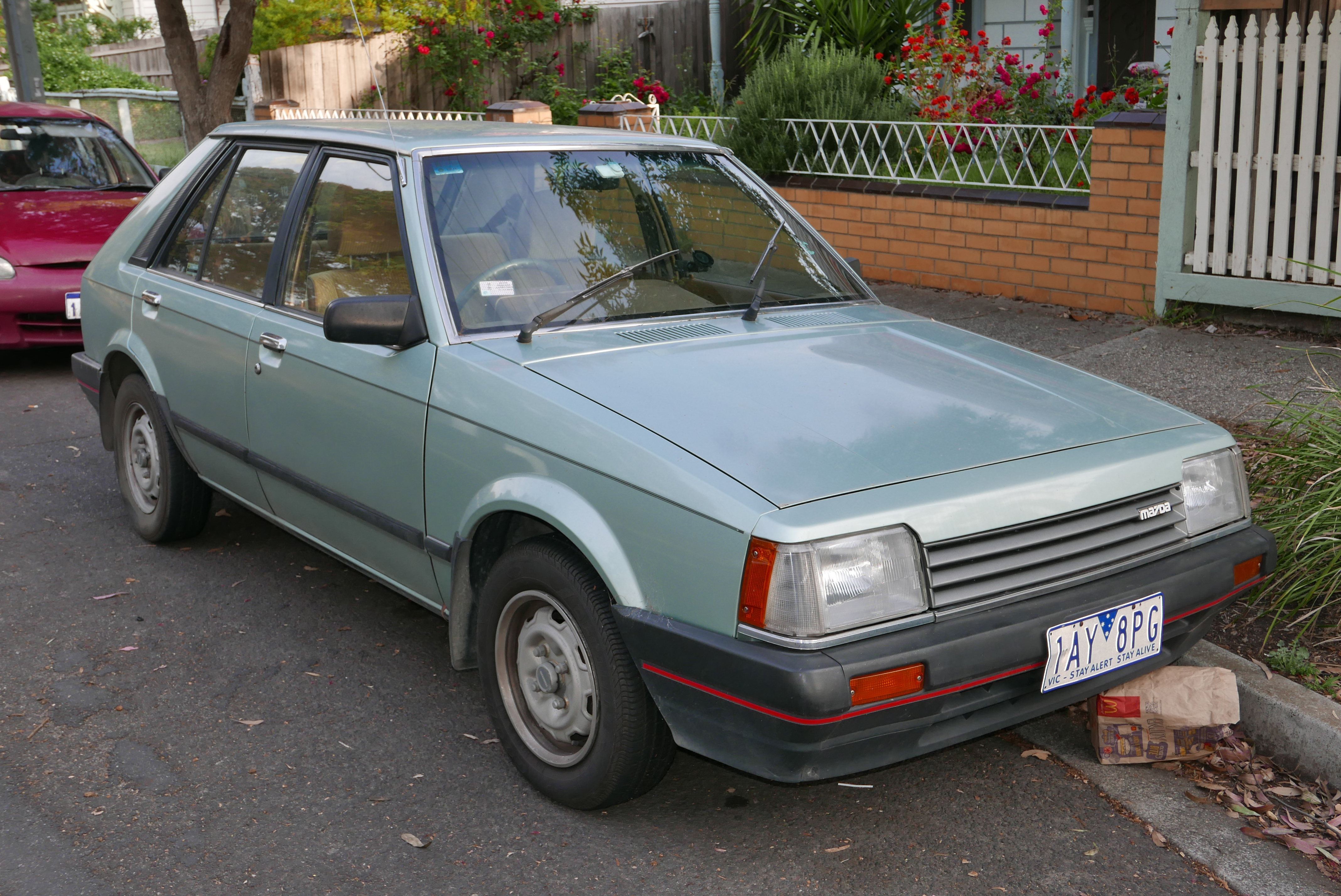 1984 Mazda 323 (BD Series 2) Super Deluxe 5-door hatchback. Photographed in Brunswick, Victoria, Australia. Vehicle registration enquiry results Jurisdiction Victoria Registration 1AY8PG Chassis code BD1052885067 Engine code E5229847 Compliance date 1984-10 Year of manufacture 1984